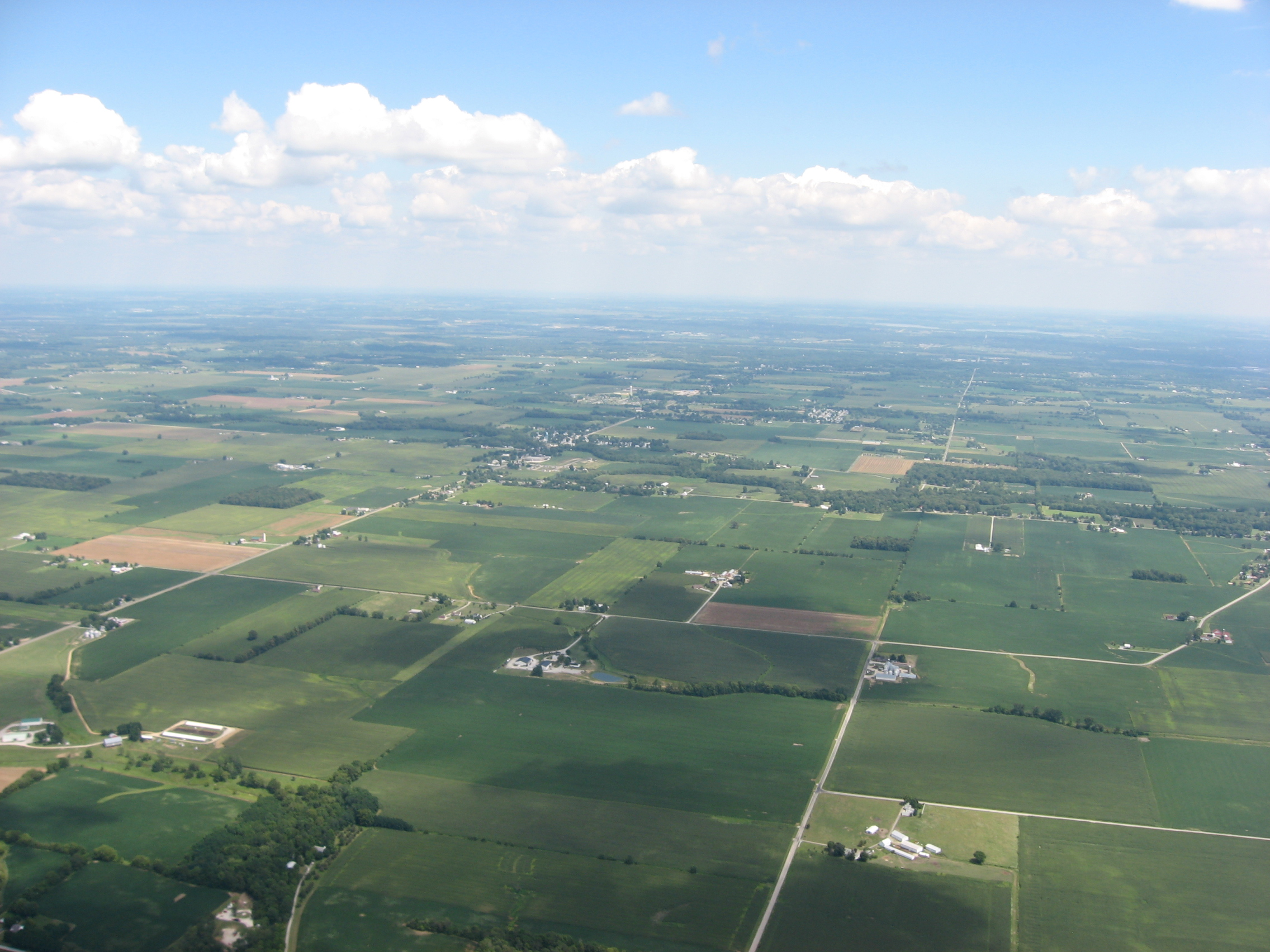 Aerial view of the village of North Hampton and surrounding parts of Pike Township, Clark County, Ohio, United States. Picture taken from a Diamond Eclipse light airplane at an altitude of 3,540 feet MSL and a bearing of approximately 80º.